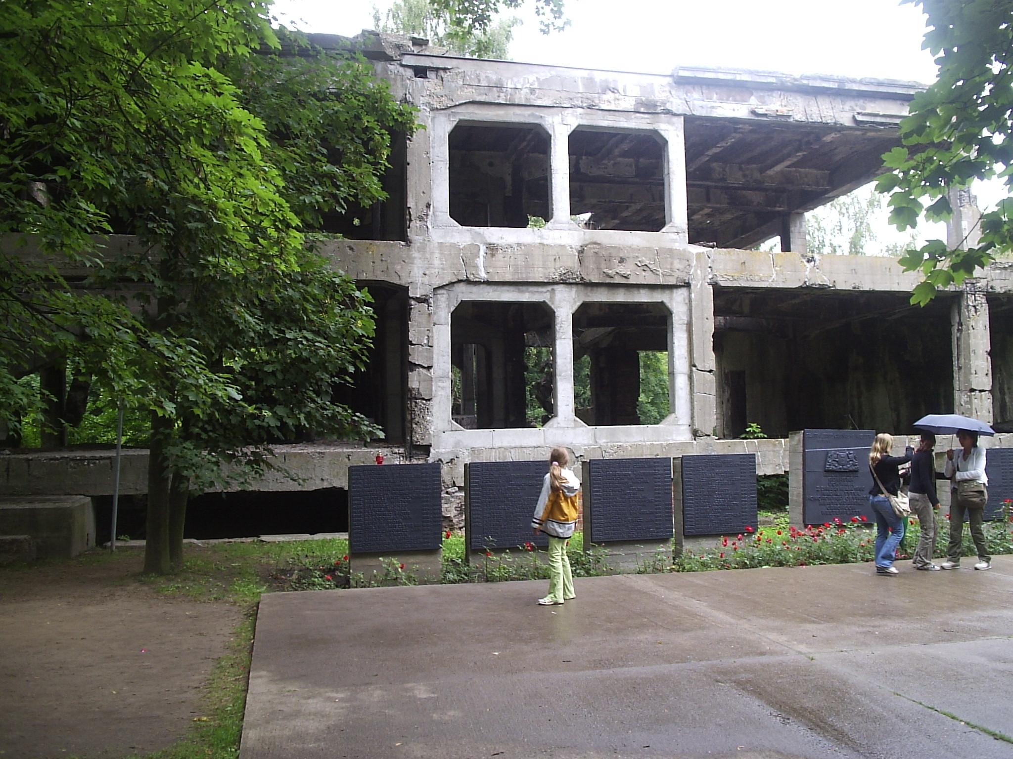 Westerplatte, Poland